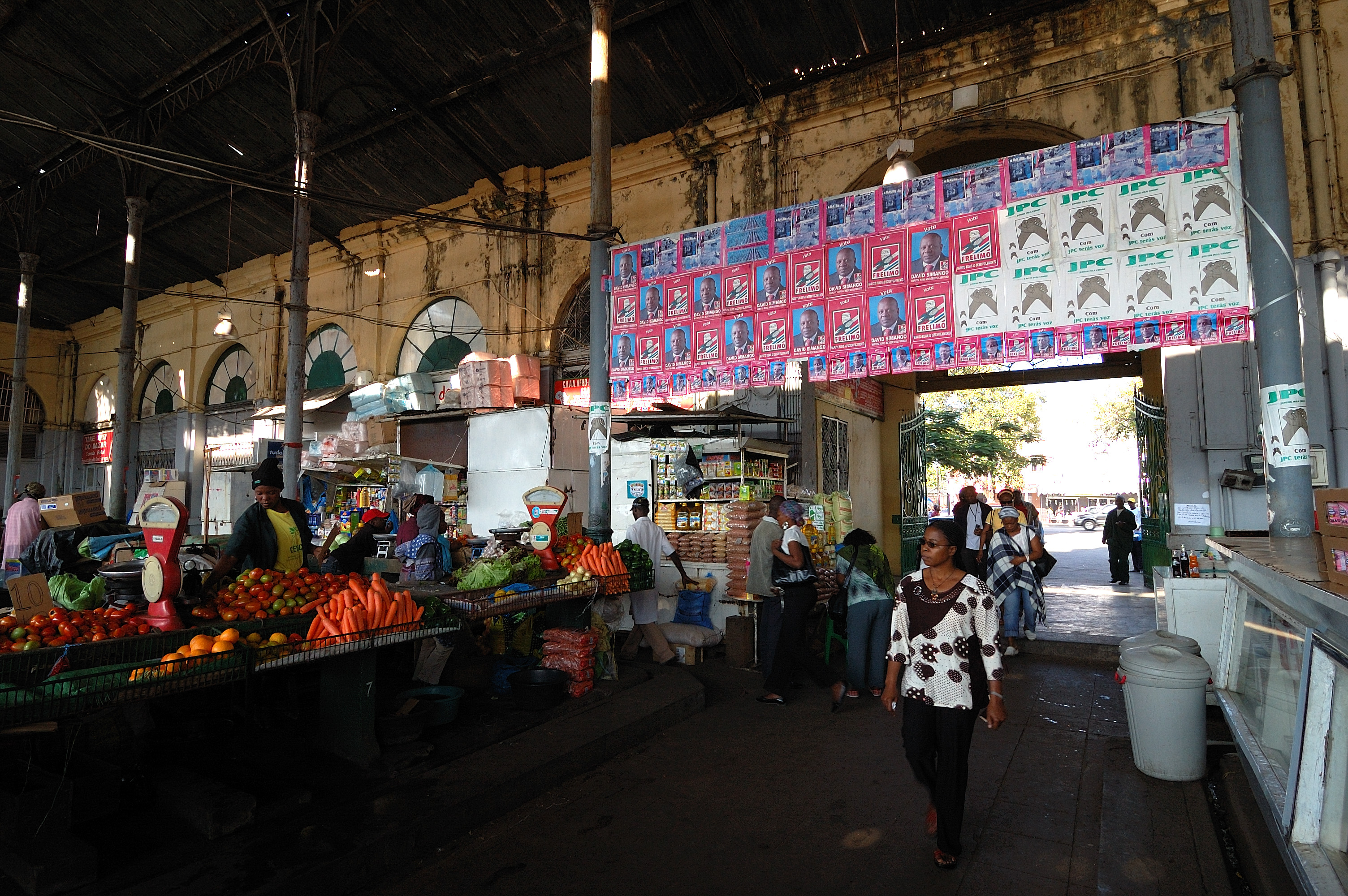 Municipal market, Maputo, Mozambique